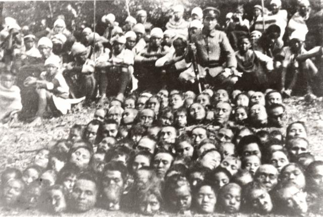 Second Wushe Incident/Second Musha Incident. Decapitated heads of surrendered rebels (Seediq of Mahebo, Boalun, Hogo, Rodof, Tarowan, Suku). They were protected near the Sakura police substation. But, in 25 April 1931, Seediq of Tautua (behind decapitated heads, they were one of the Mikata-Bans) assulted and beheaded them.